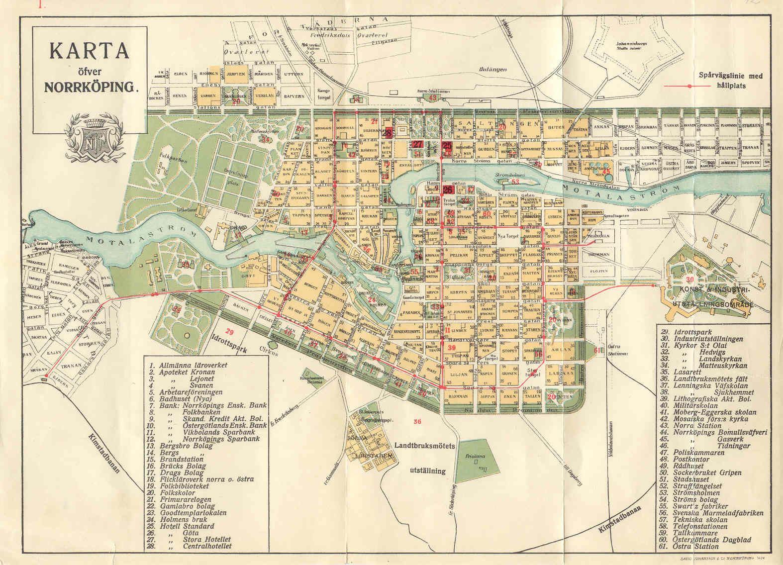 Map of Norrköping during the Industrial and art exhibition in Norrköping, Sweden, the summer 1906.